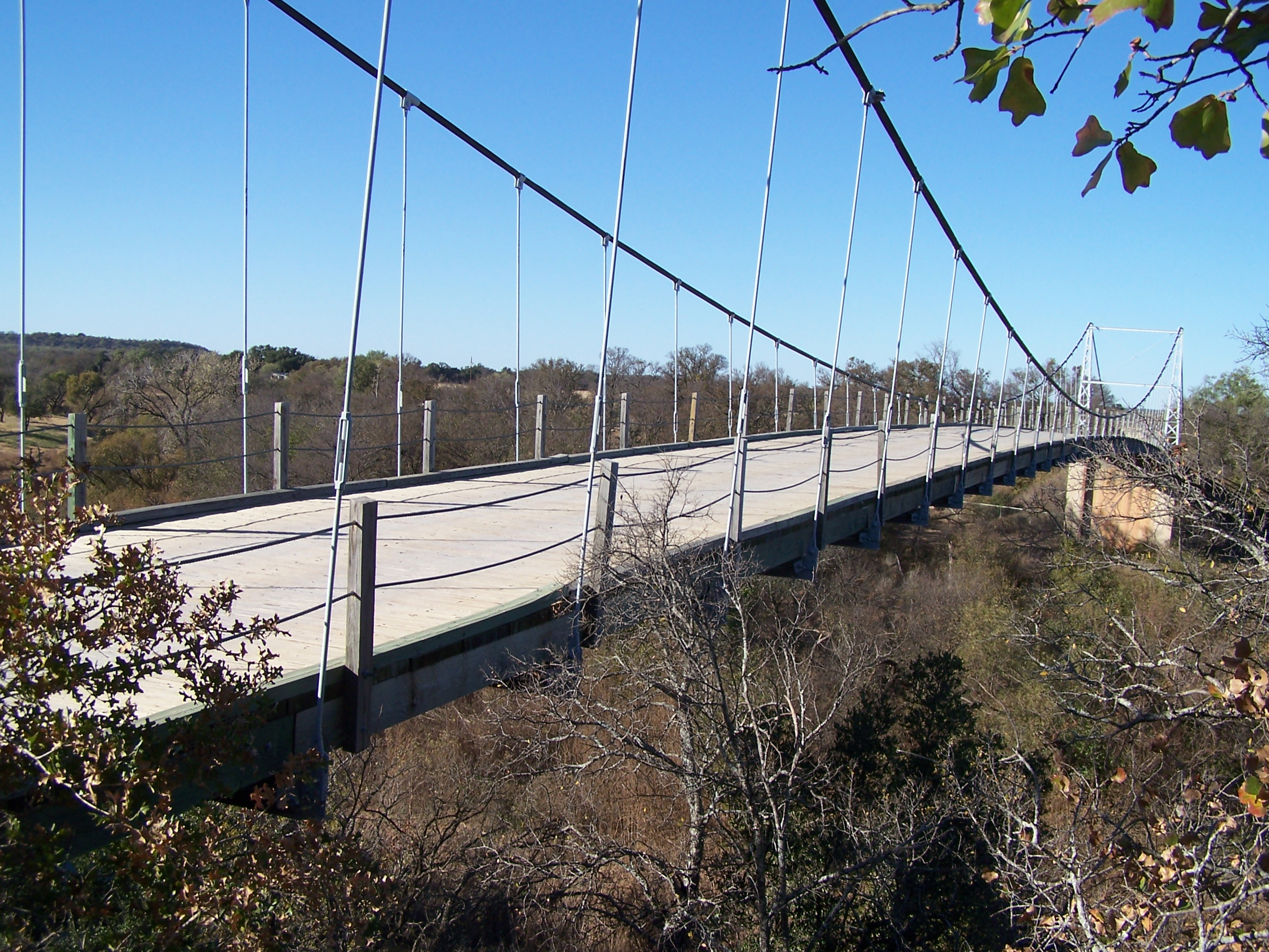 Side view of Regency Bridge. Source: Aren Cambre